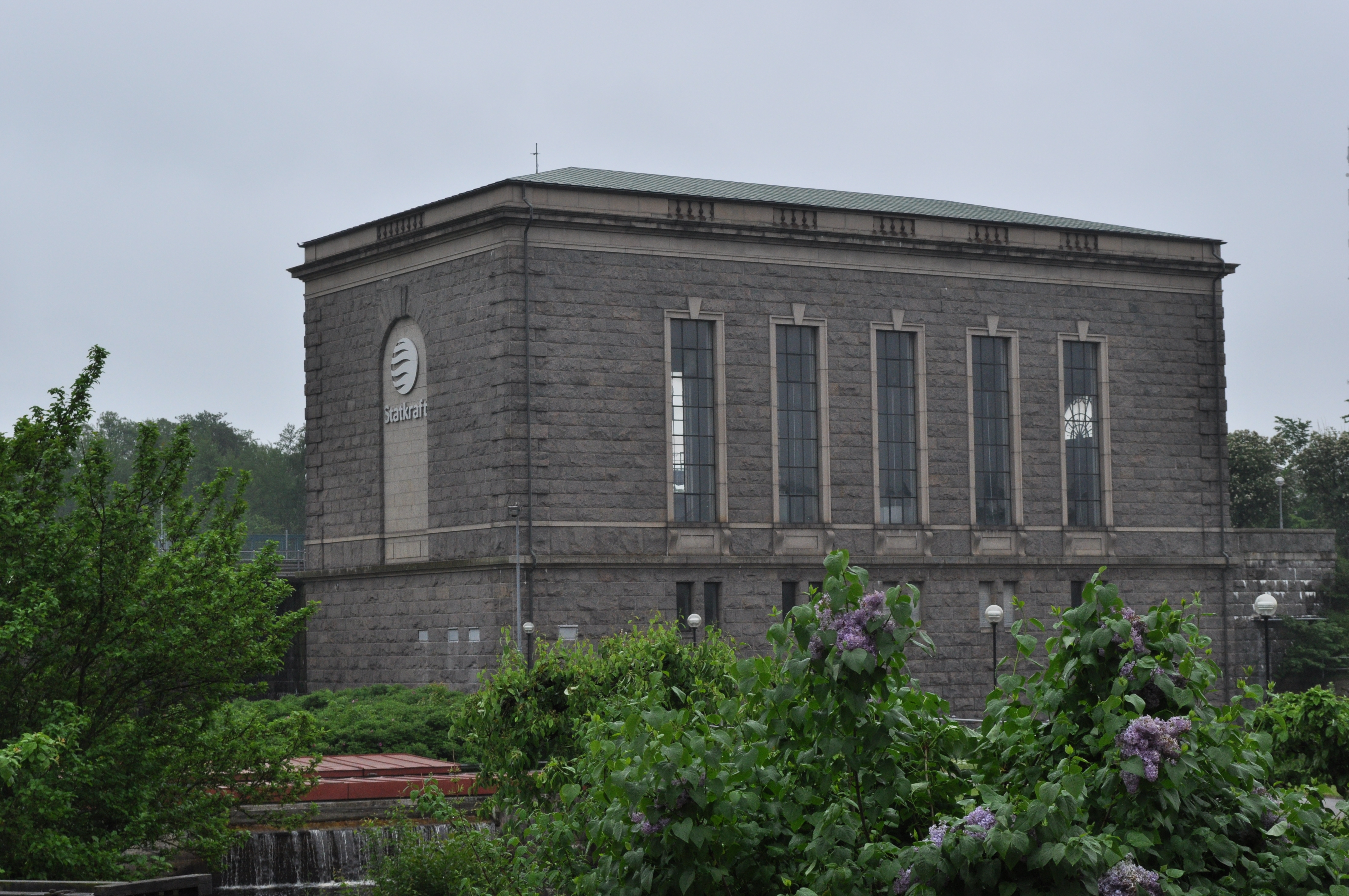 The powerstation close to the ruin of Lagaholm.